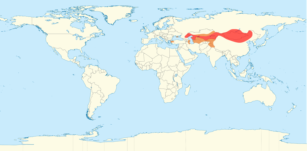 Distribution map of the Bactrian Camel